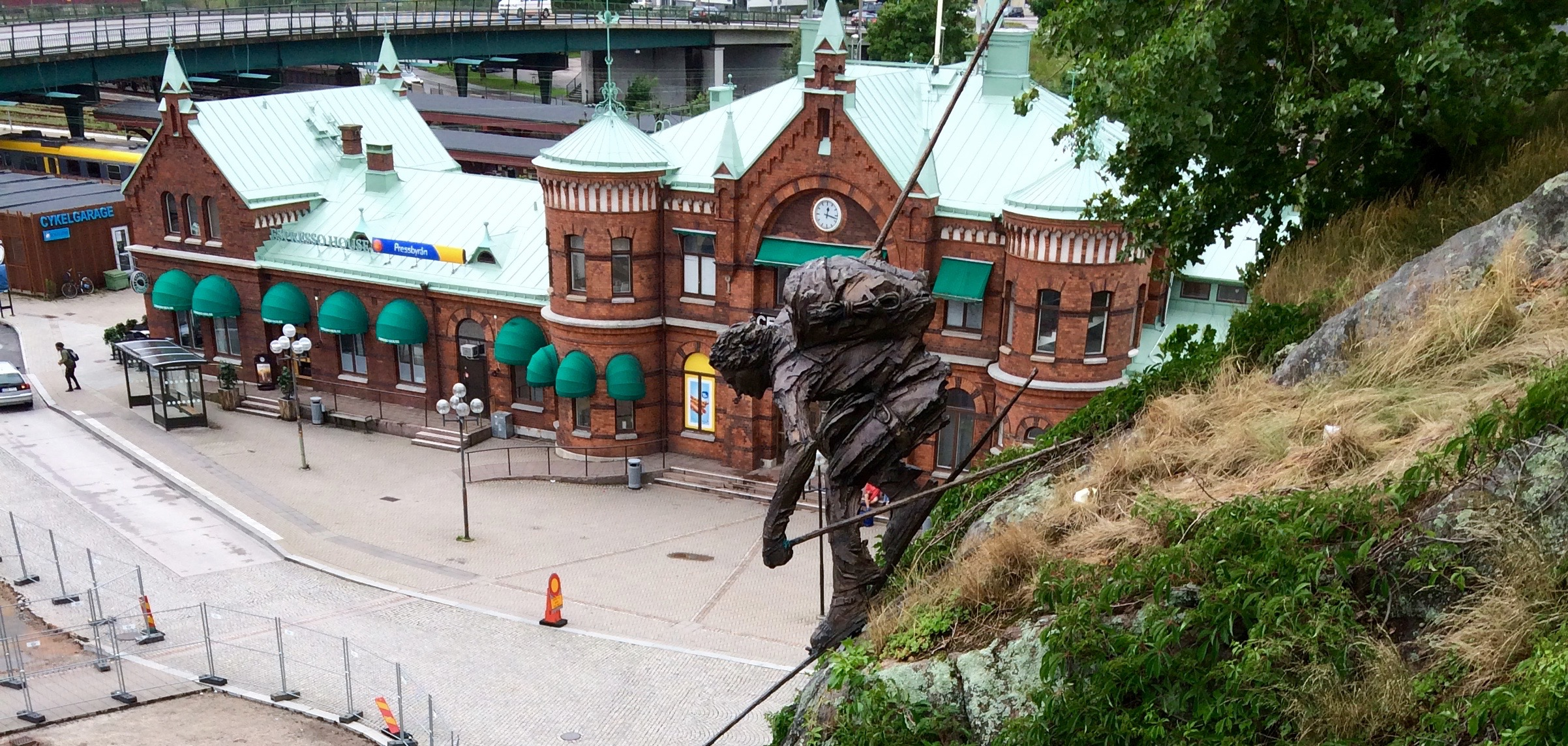 Passion Extreme is the name of a sculpture by the Swedish sculptor Richard Brixel (* 1943). It is a memorial to the adventurous mountain climber and skier Tomas Olsson (1976-2006) at Krokshallsberget, a hill in central Borås, his home town in Sweden. It was inaugurated 16 May 2016, ten years after the date of Tomas Olsson's skiing down from the top of Mount Everest ending with his death.